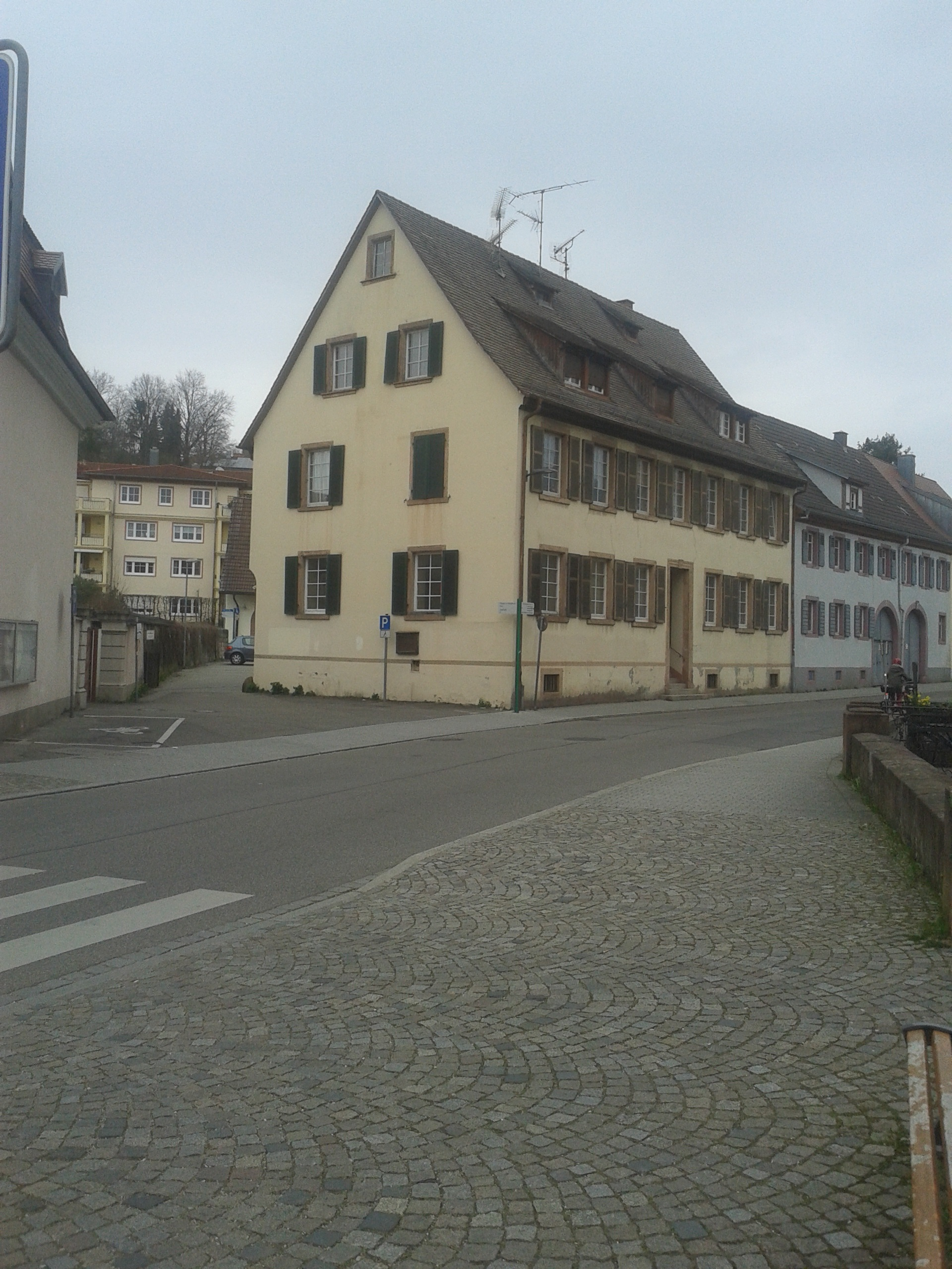 Emmendingen - former "Horst-Wessel-Haus", NSDAP-Kreisleitung, Hebelstr. 1, today